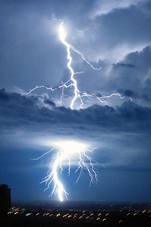 Lighting, Brasilia, Brazil